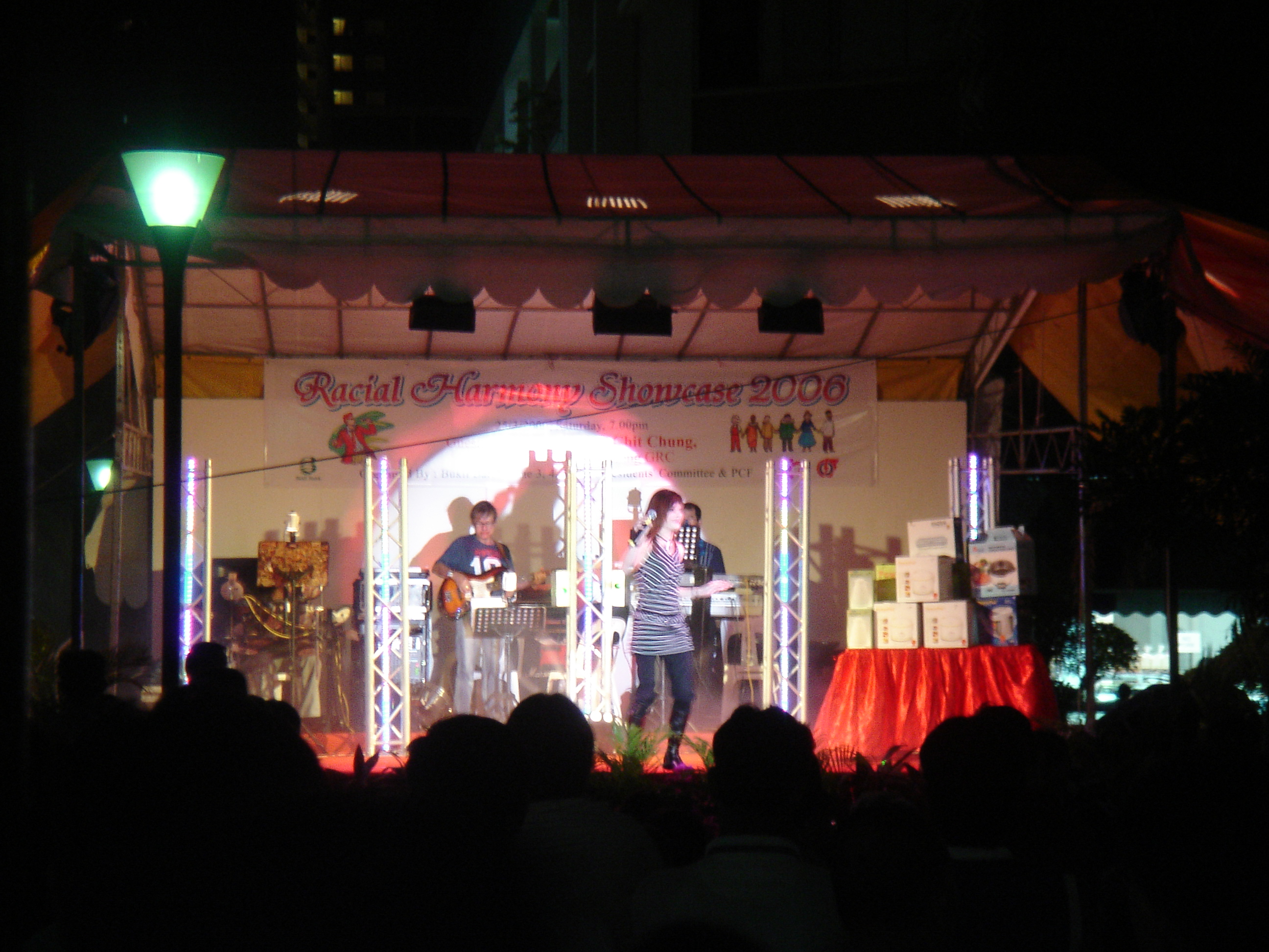 A getai performance as part of a "Racial Harmony Showcase" in Singapore.